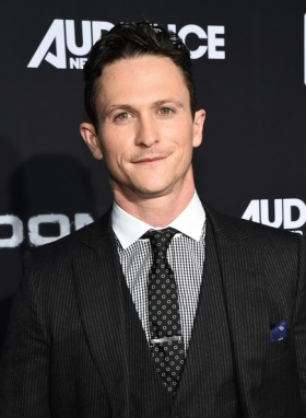 Kingdom premiere.